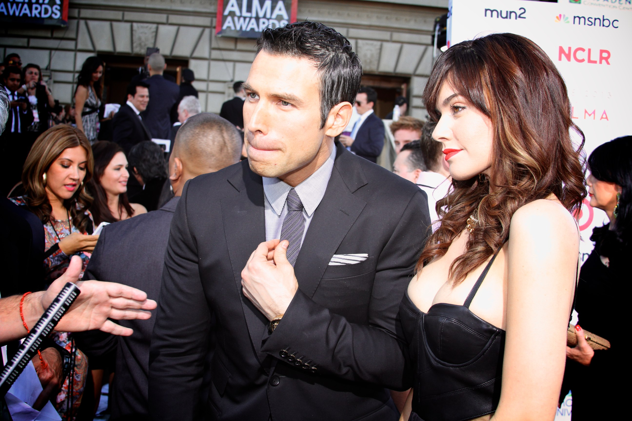 Rafael Amaya and Angelica Celaya at the 2013 Alma Awards